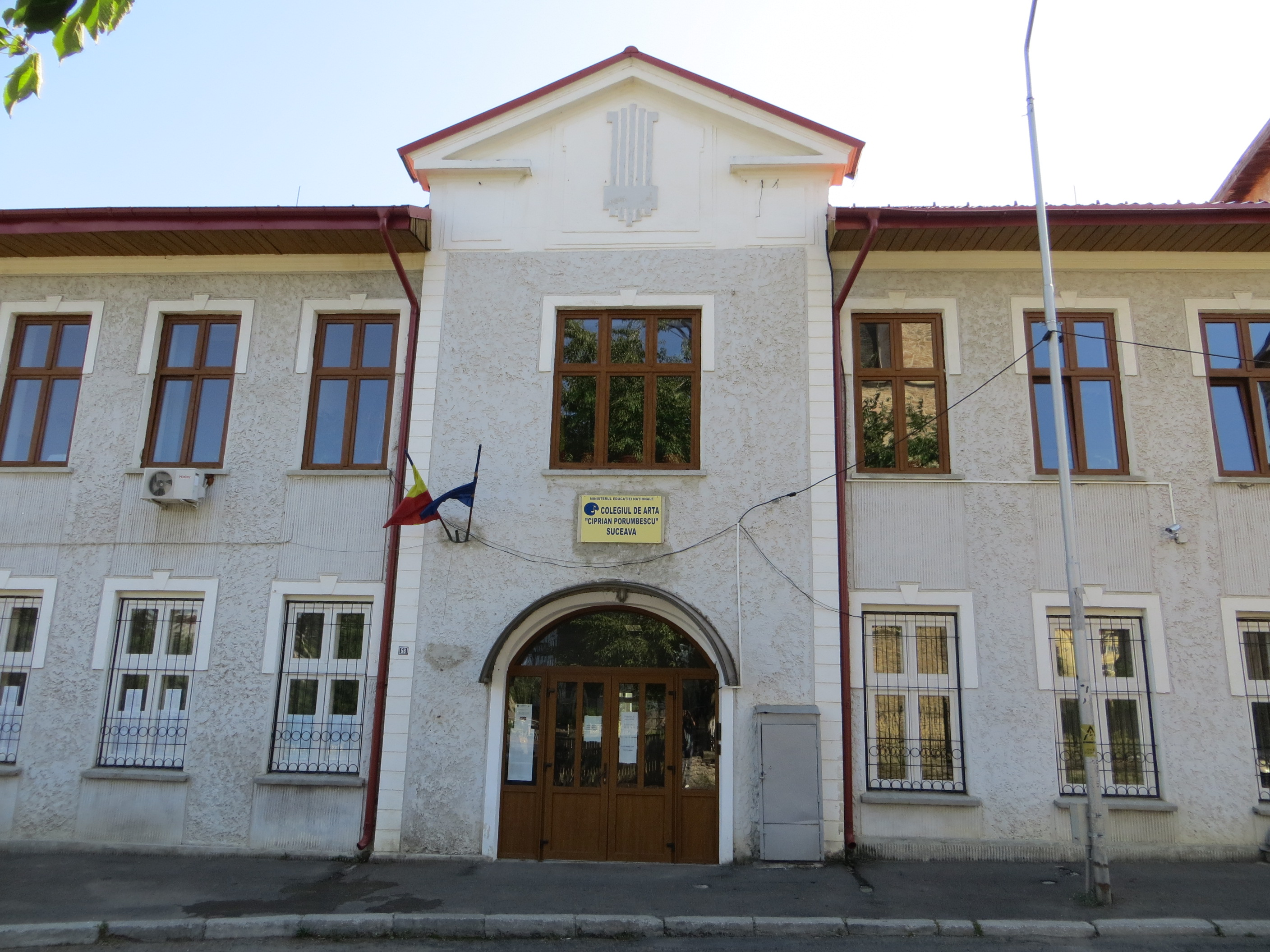 Ciprian Porumbescu Art College in Suceava.